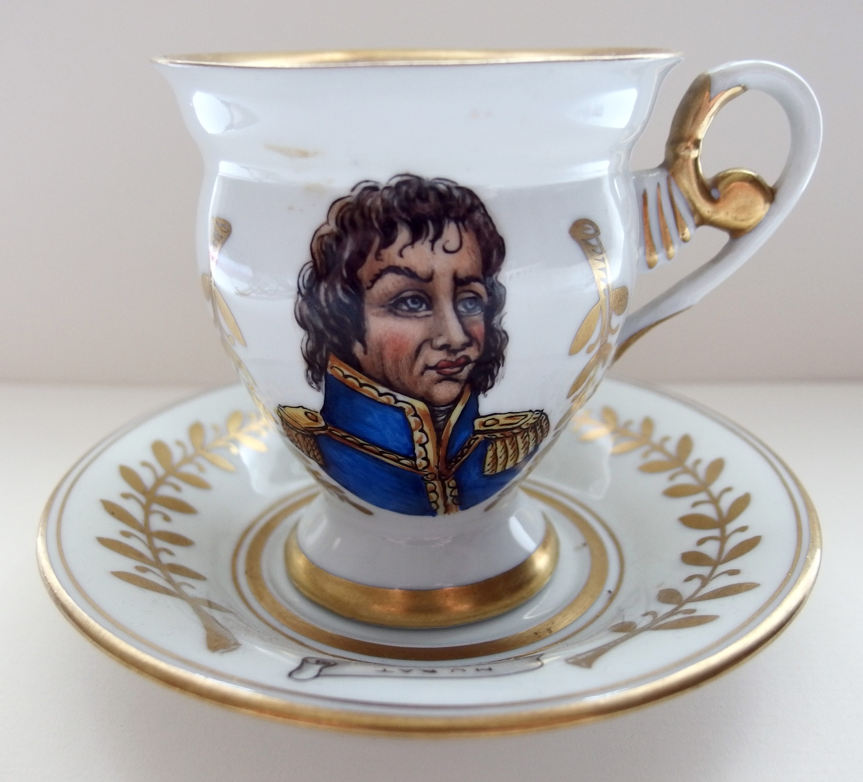 Joachim Murat on decorative cup with saucer